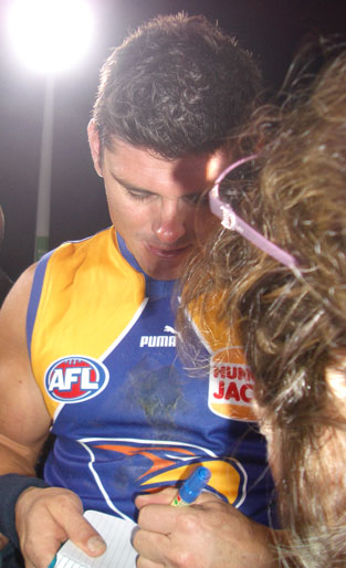 Troy Wilson signing autographs after the 2008 Chris Mainwaring Tribute Match